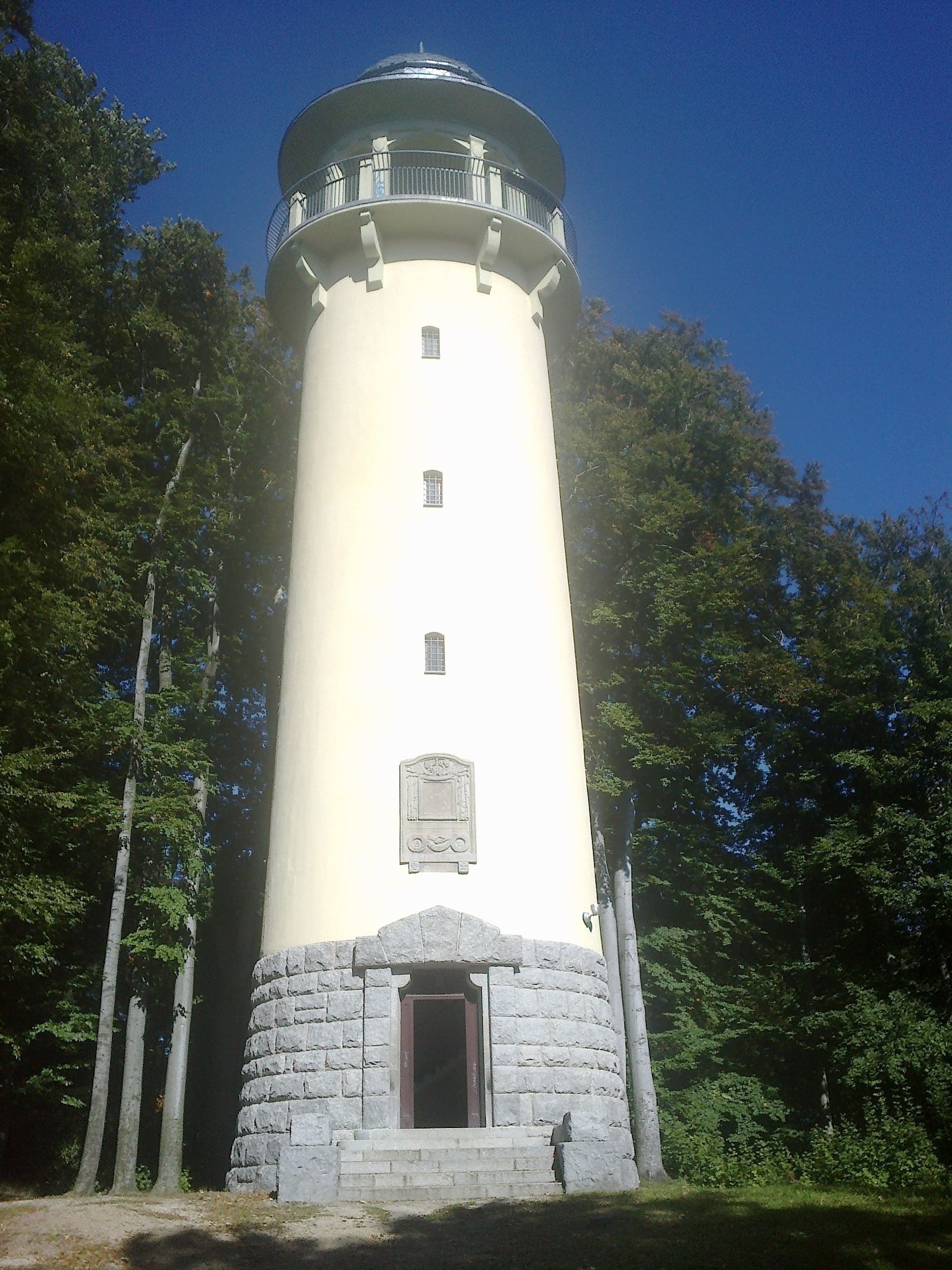 22 metre high tower with observation deck, built in 1911, on the top of Krzywousty Hill, Jelenia Góra, Lower Silesia, Poland.